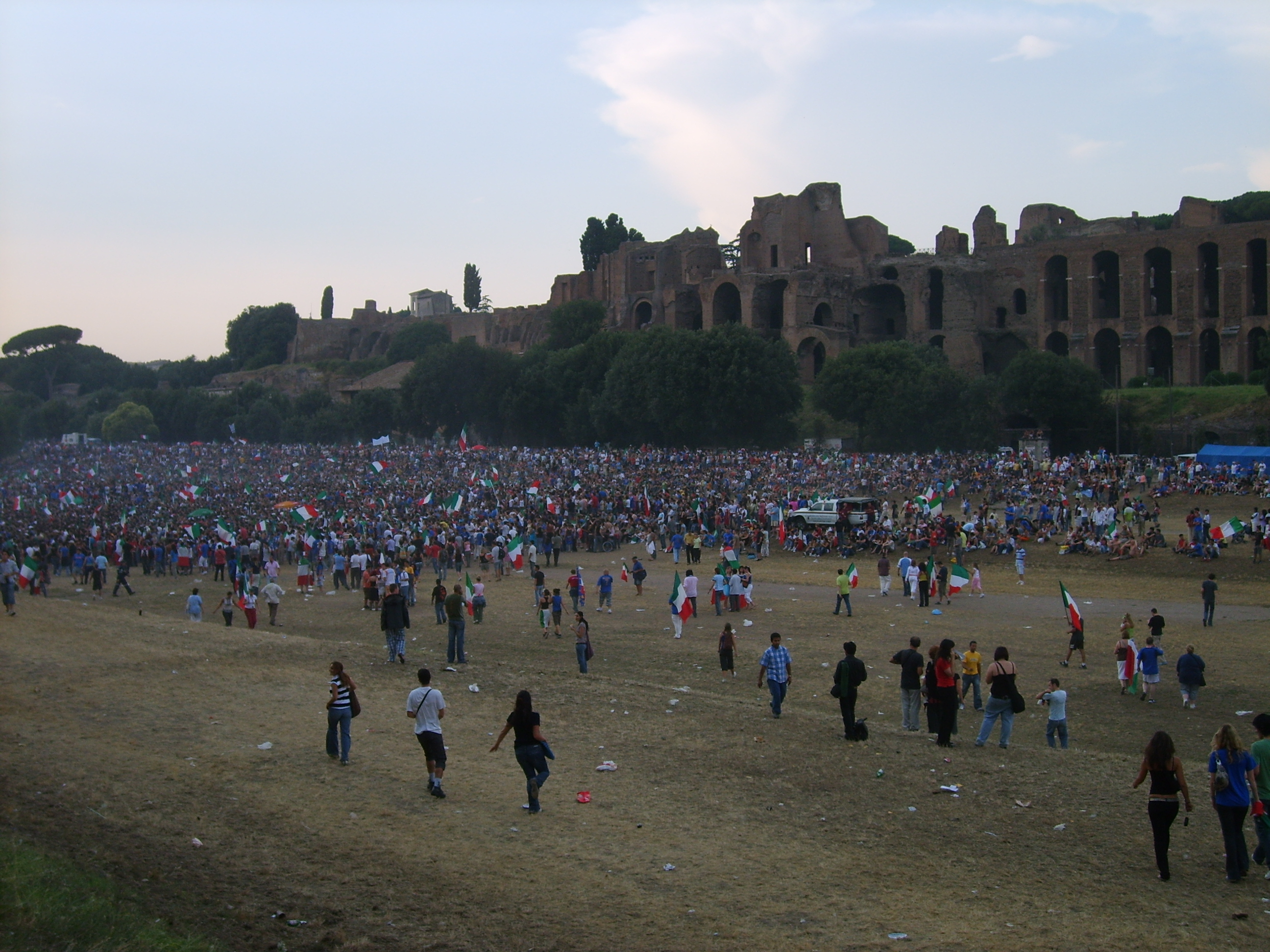 A lot of people gathered in Circus Maximus, Rome, to watch all together the final of the FIFA World cup 2006 Italy vs France. This is a picture of the area about 20 minutes before the beginning.